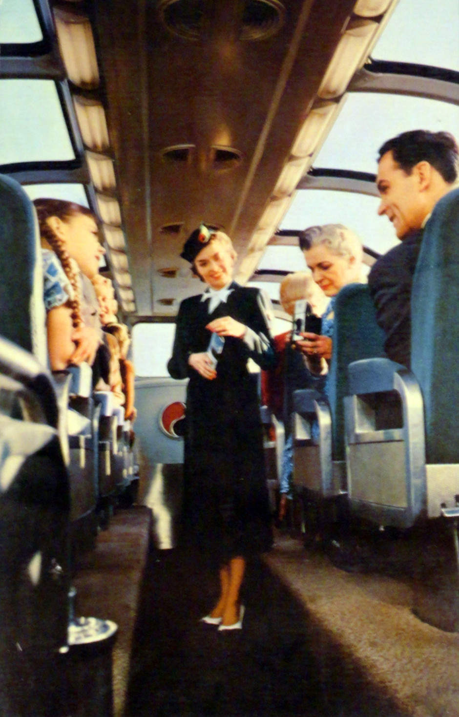 Postcard photo of the stewardess/nurse on the Northern Pacific's North Coast Limited in one of the train's Vista Dome cars.